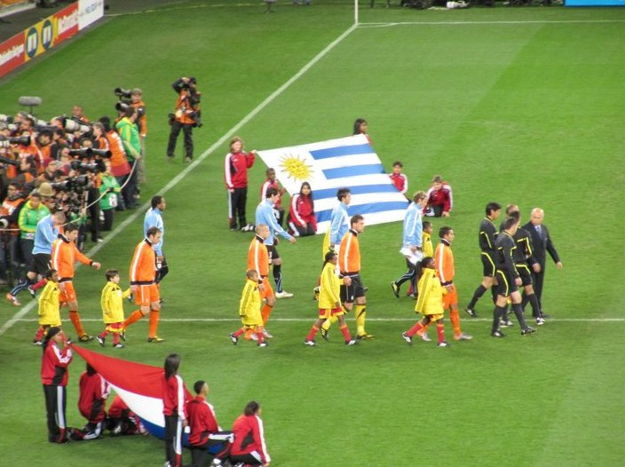 06 July 2010 - Netherlands vs Uruguay in the 2010 Fifa World Cup.